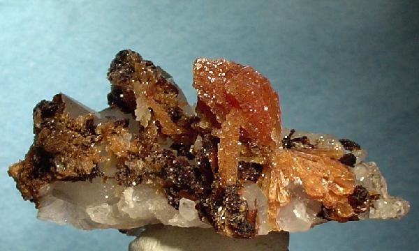 Inesite, Hubeite, Apophyllite Locality: Fengjiashan Mine (Daye Copper mine), Edong Mining District, Daye County, Huangshi Prefecture, Hubei Province, China (Locality at ) Size: 5.5 x 4.0 x 2.7 cm. An EXCELLENT and aesthetic combination specimen from the famous Daye Mine of China, which includes the ULTRA-RARE silicate hubeite. This showy specimen is highlighted by an angled bowtie of lustrous, salmon-colored inesite crystals in the front of the piece. The bowtie is 3.0 cm long. The glassy, quartz crystal matrix is richly and attractively covered with dark brown bundles of hubeite crystals to 0.5 cm and creme-colored apophyllite microcrystals. Outstanding combo material from this famous mine.